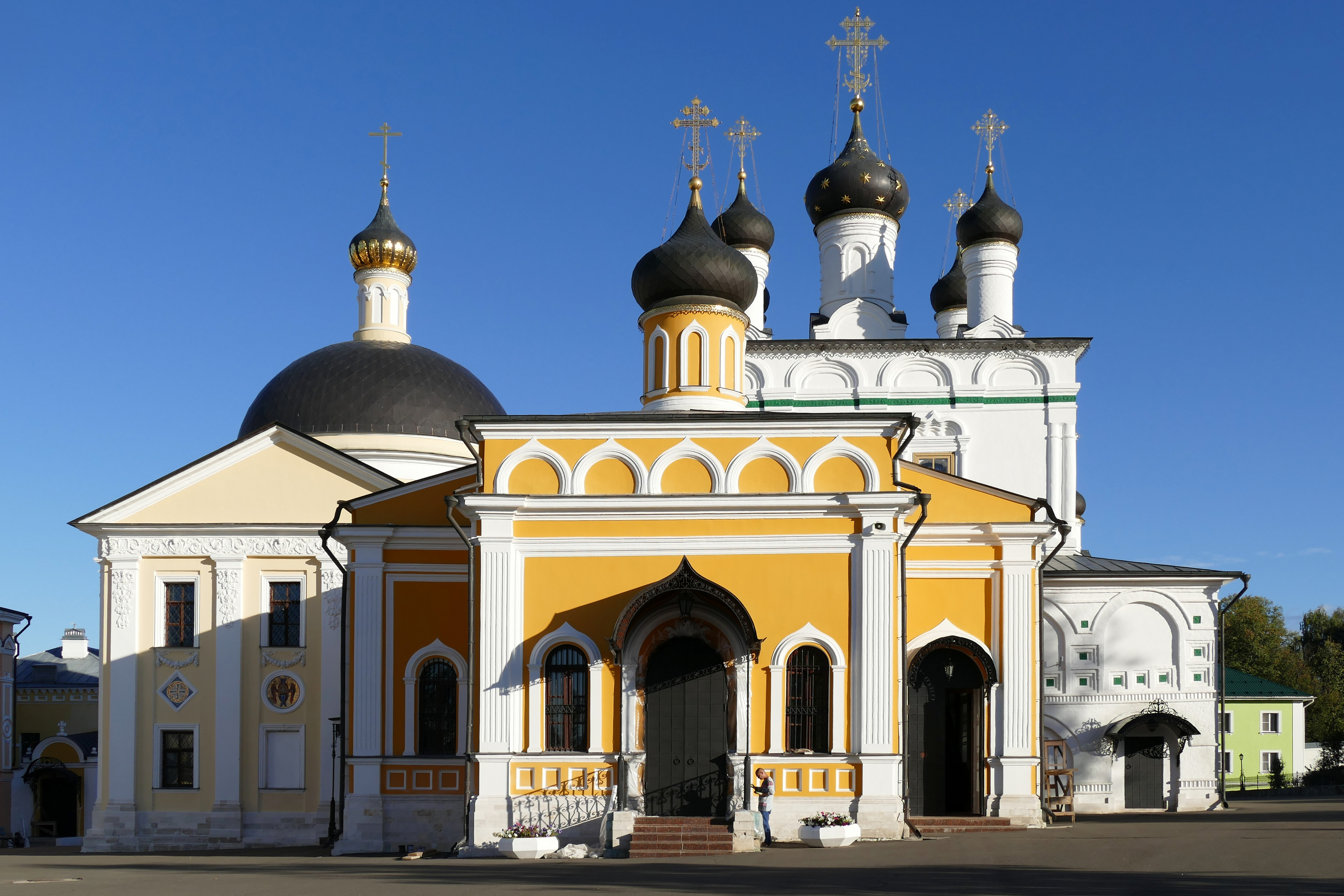 Voznesenskaya Davidova Pustyn. Znamenskaya Church (in the foreground), as well as St. Nicholas Church (rear left) and the Cathedral of the Ascension (rear right). Moscow region, Russia.